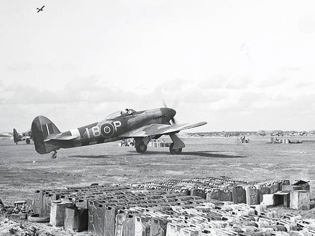 Hawker Typhoon of No. 440 Squadron RCAF.